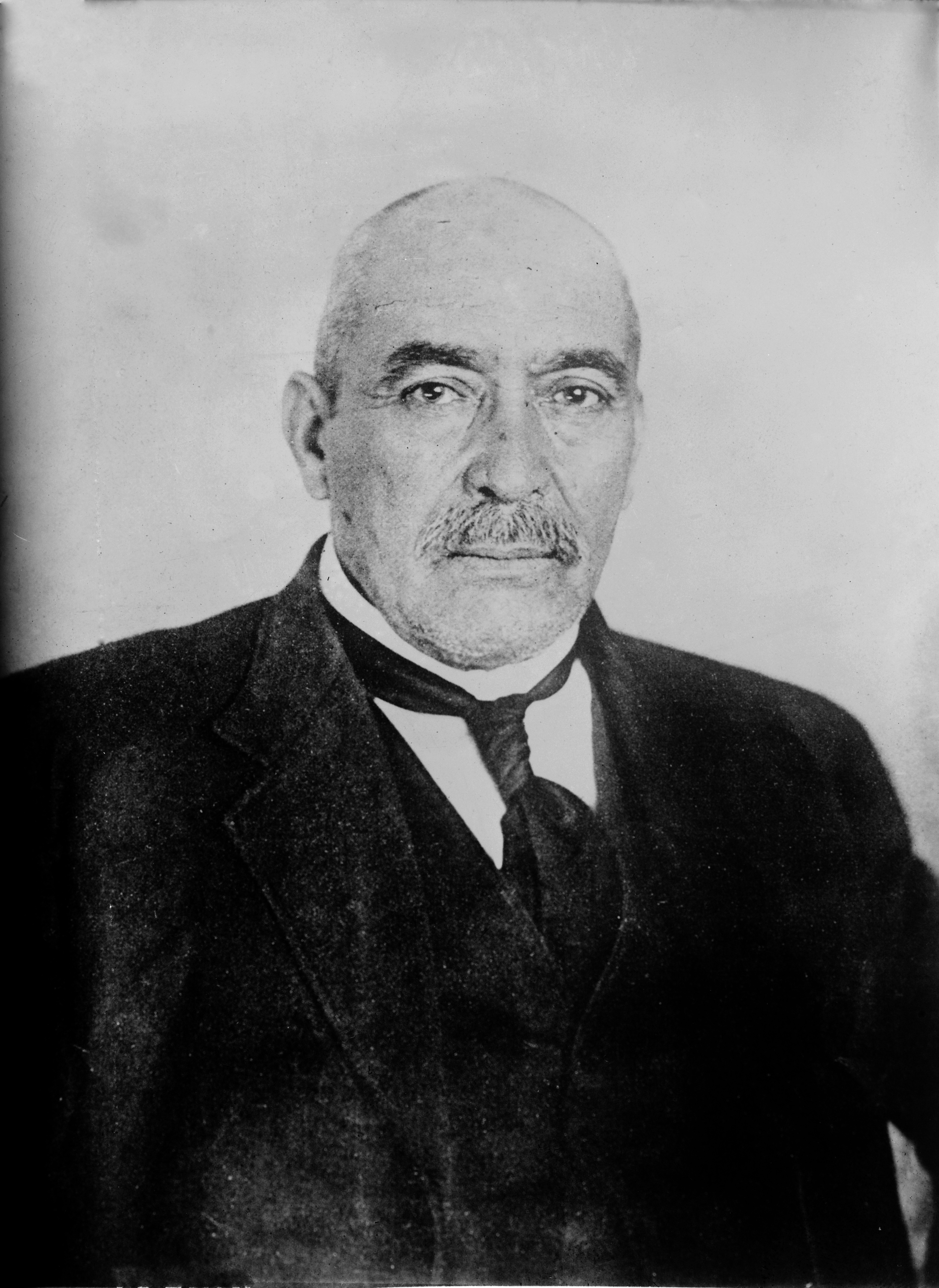 Portrait of General Victoriano Huerta, president of Mexico.